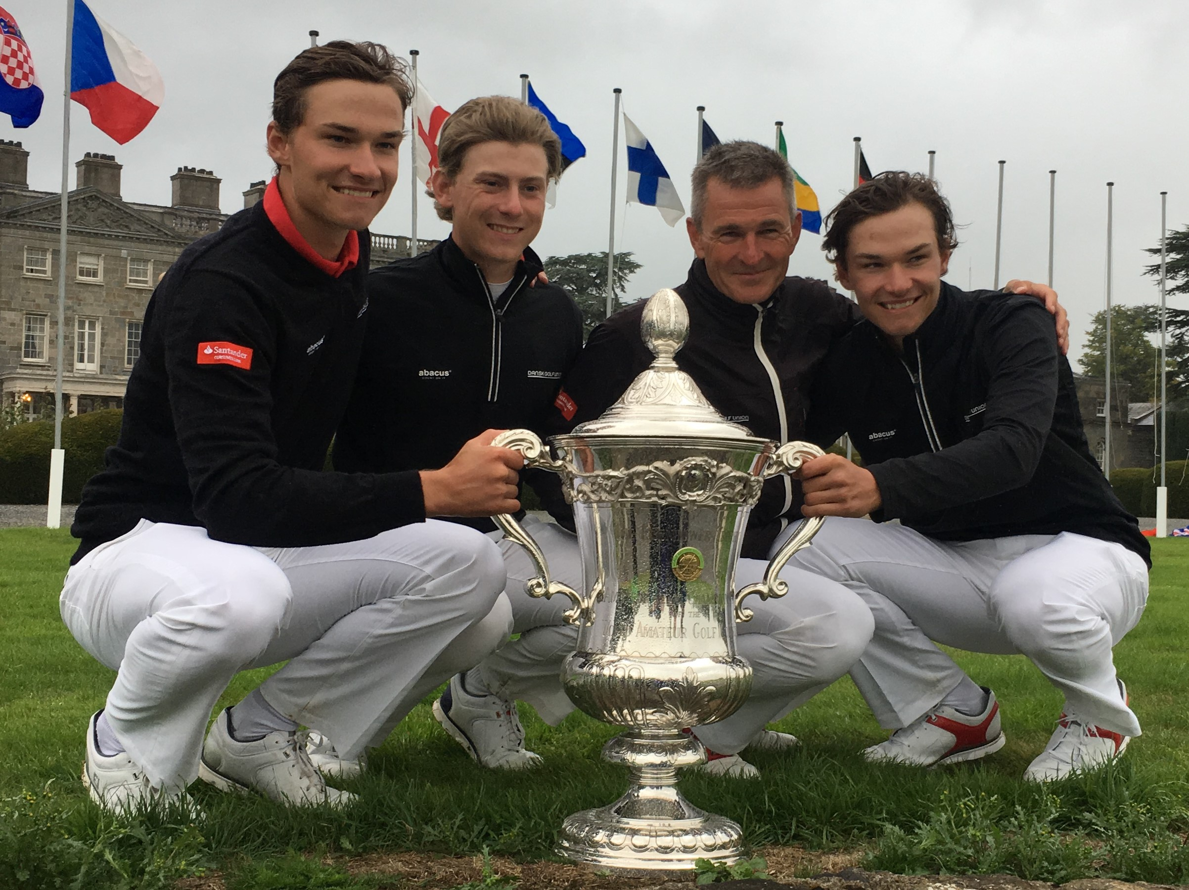 World Amateur Team Championship (Eisenhower Trophy) 2018 in Ireland. The winning team Denmark with the Trophy. John Axelsen, Rasmus & Nicolai Højgard, Captain Torben Nyehus.